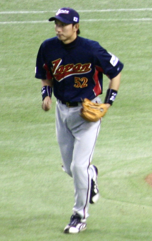 Munenori Kawasaki, infielder of the Japan national baseball team, at Tokyo Dome.